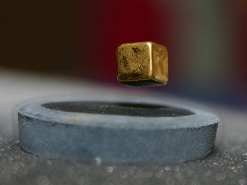 A magnet is suspended over a liquid nitrogen cooled high-temperature superconductor (-200°C)